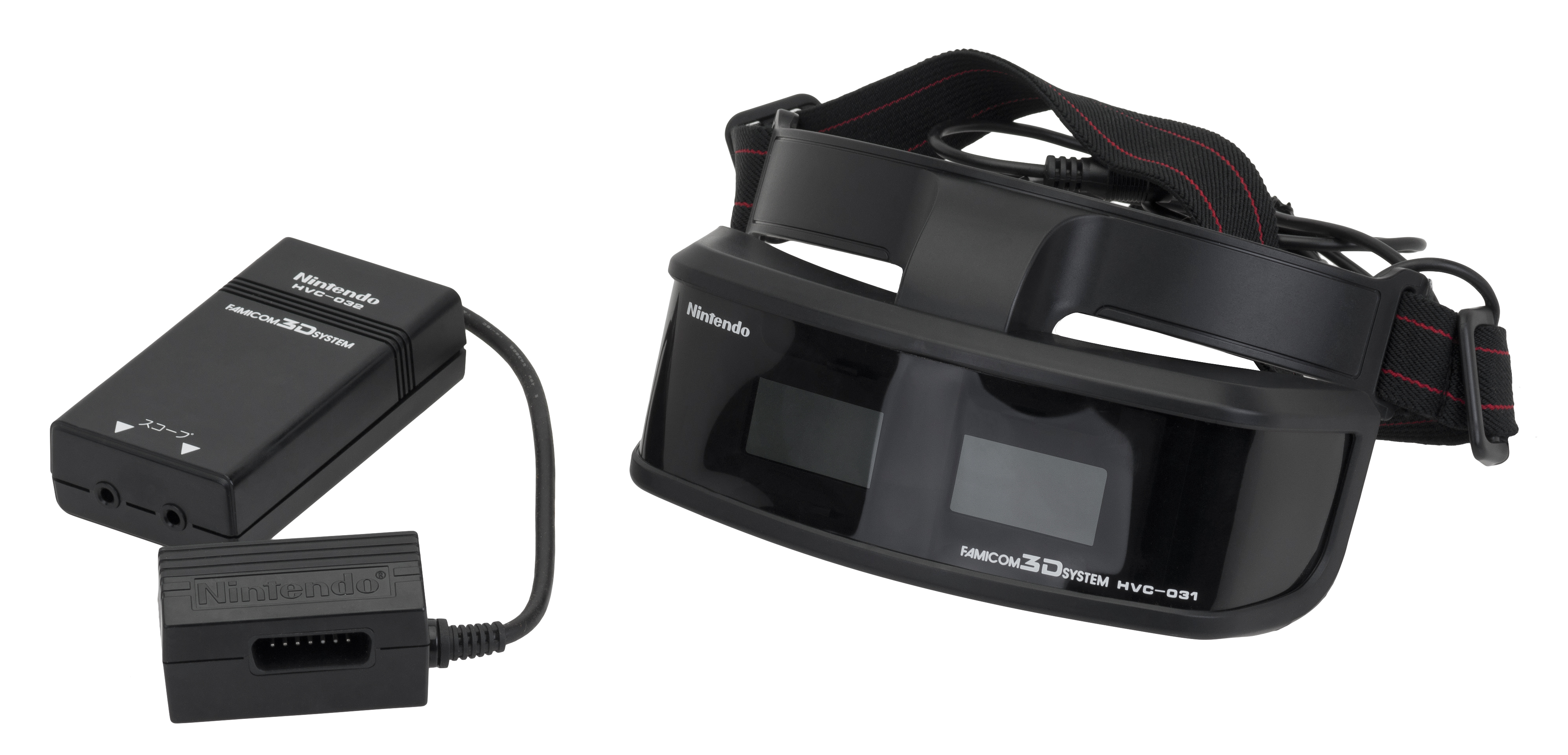 The 3D imaging glasses for the Nintendo Famicom video game system. The device only worked for specially-produced games and functioned via an active shutter system, which gave each eye a separate image to produce stereoscopic 3D.